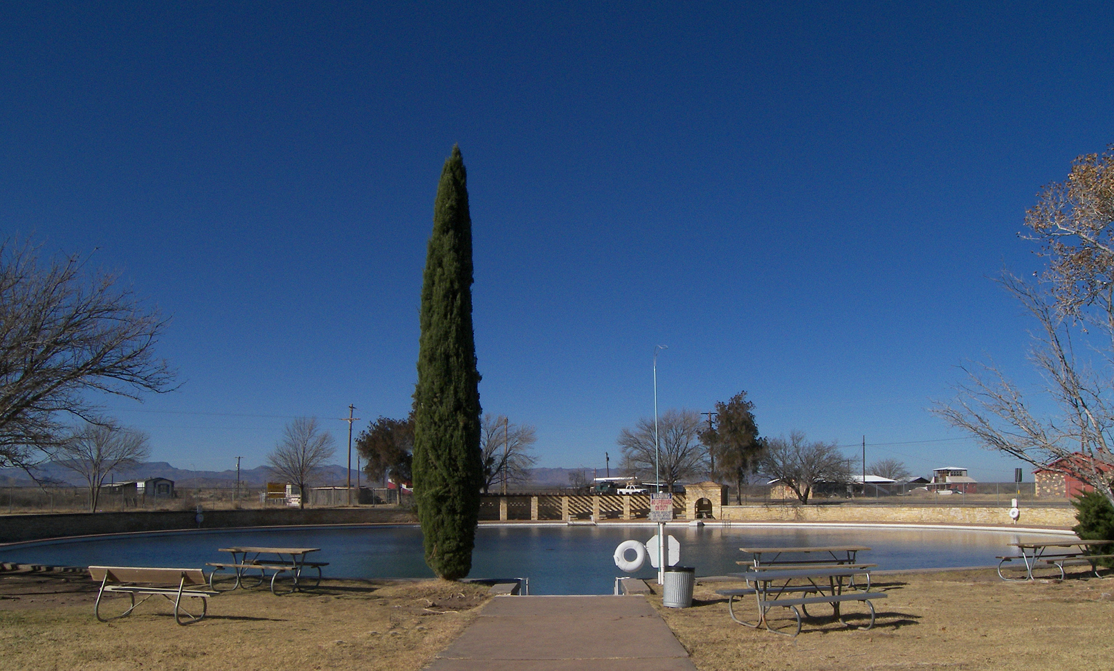 The Balmorhea State Park swimming pool near Balmorhea, Texas, United States. The pool is formed by water discharged from San Salomon Springs.